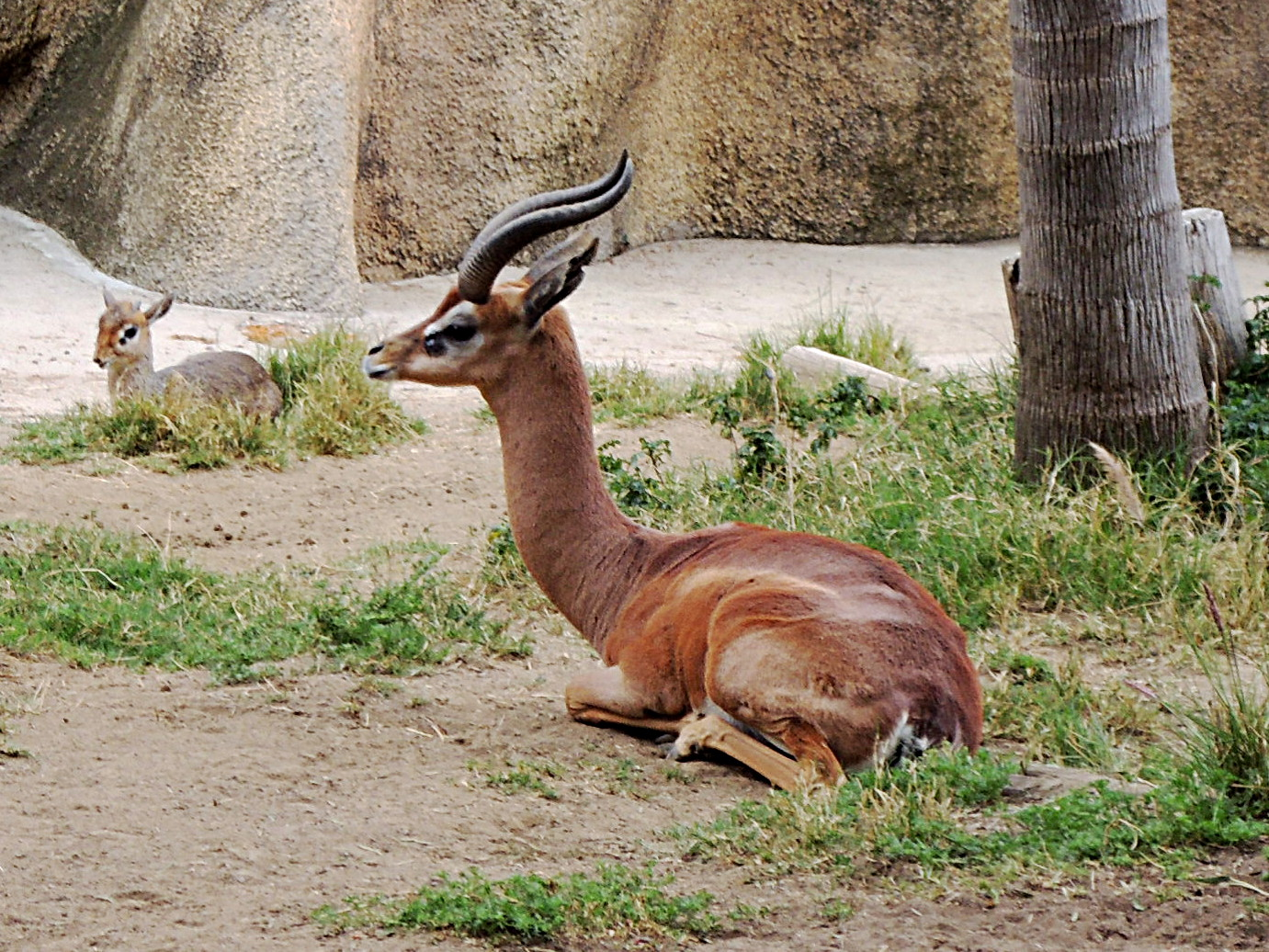 Southern Gerenuk (Litocranius walleri walleri) in San Diego Zoo.